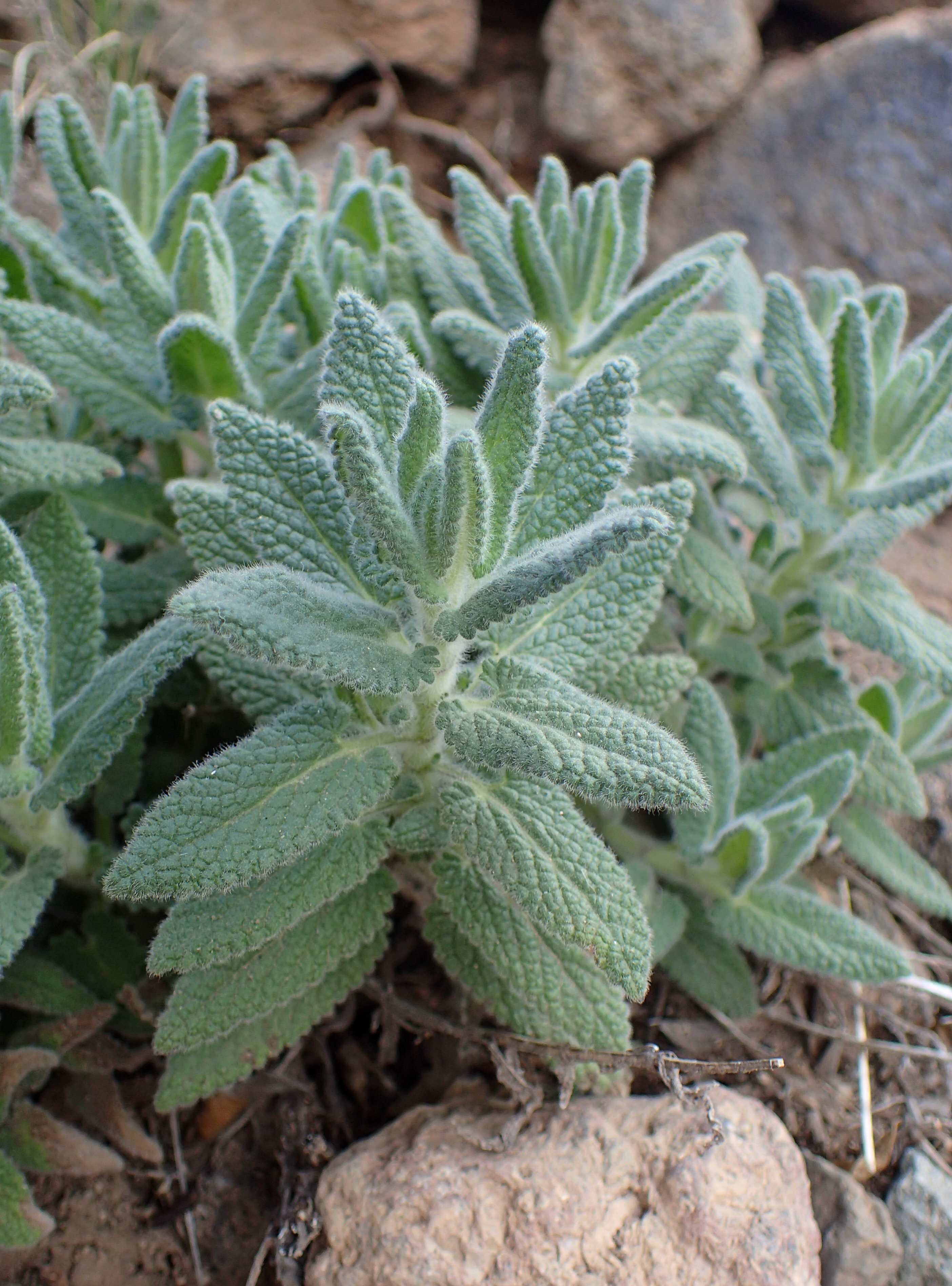 Nepeta teydea in Boca Teuce, Tenerife, Canary Islands